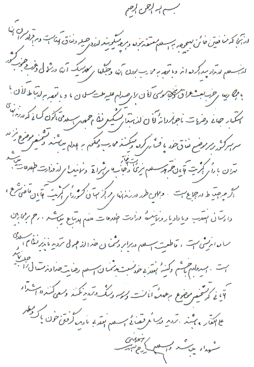 Ruhollah Khomeini's order for 1988 executions of Iranian political prisoners